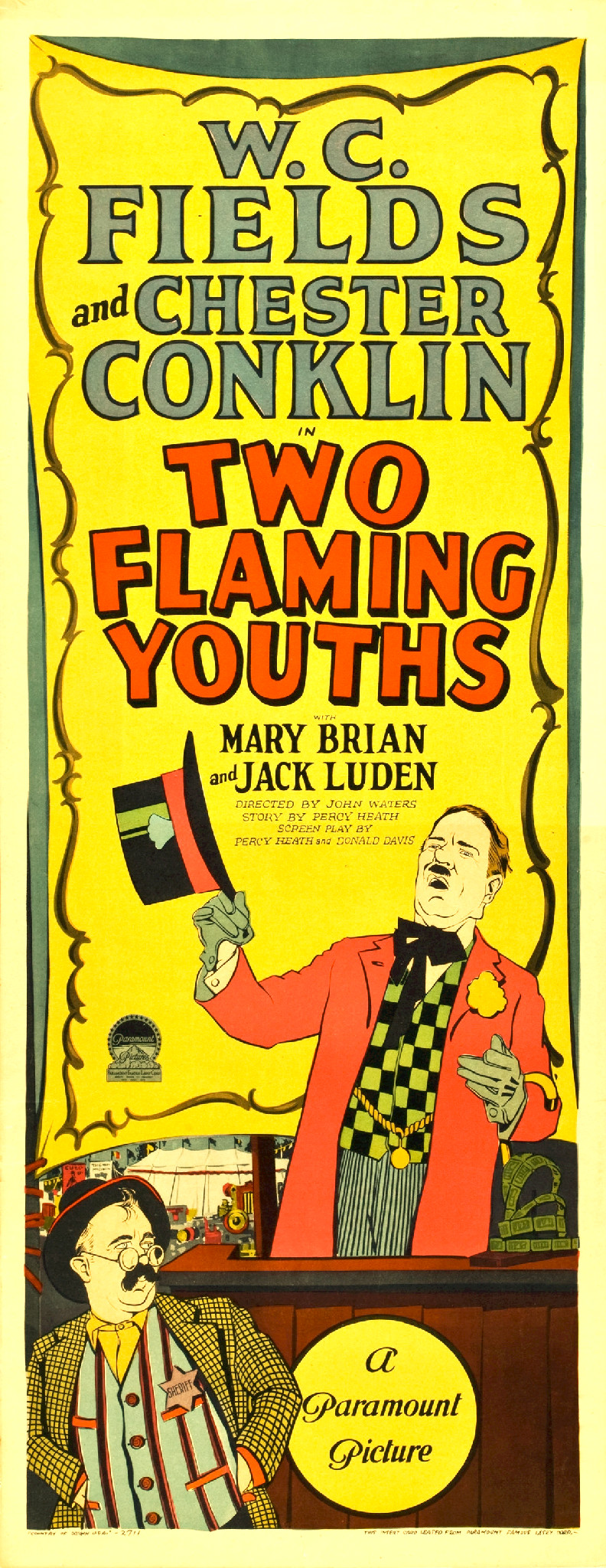 Poster for the American comedy film Two Flaming Youths (1927). The item has no copyright markings on it as can be seen in the links above. At bottom left is Country of Origin USA-2711. At bottom right is This insert card leased from Paramount Famous Lasky Corporation.